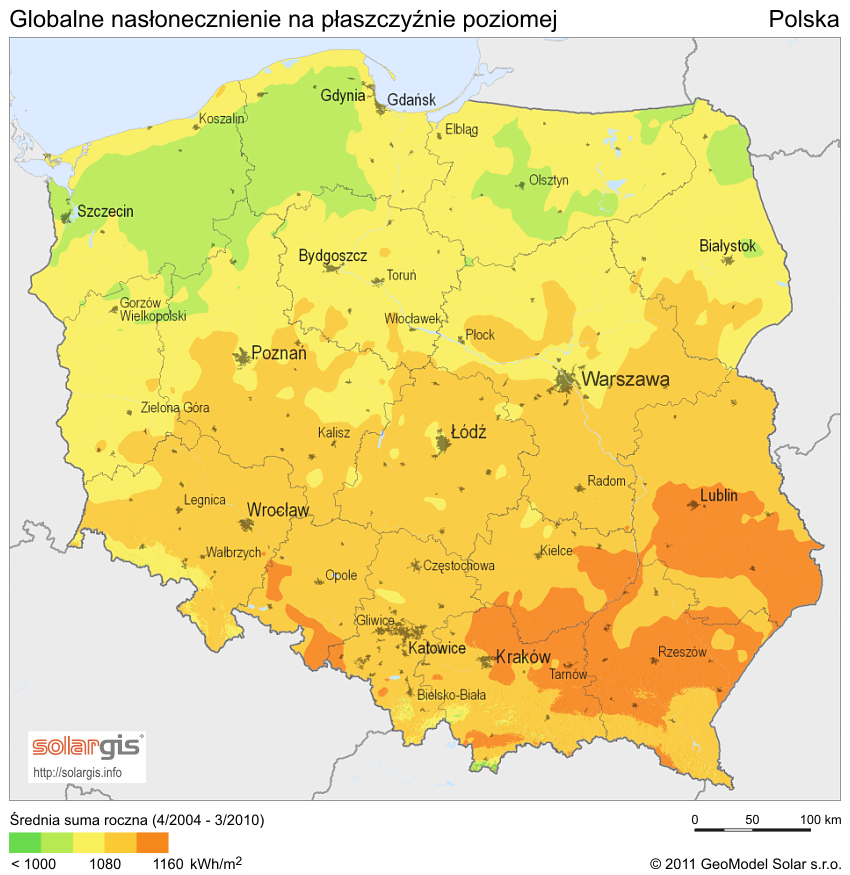 Solar Radiation Map: Global Horizontal Irradiation Map of Poland, SolarGIS 2011